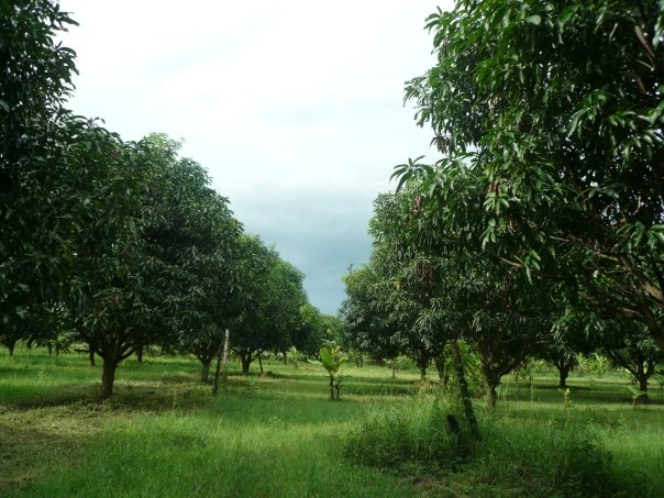 Mango trees produce fresh fruit at least twice a year at Angeles Estates, a farm in Science City of Munoz, Nueva Ecija, Philippines.